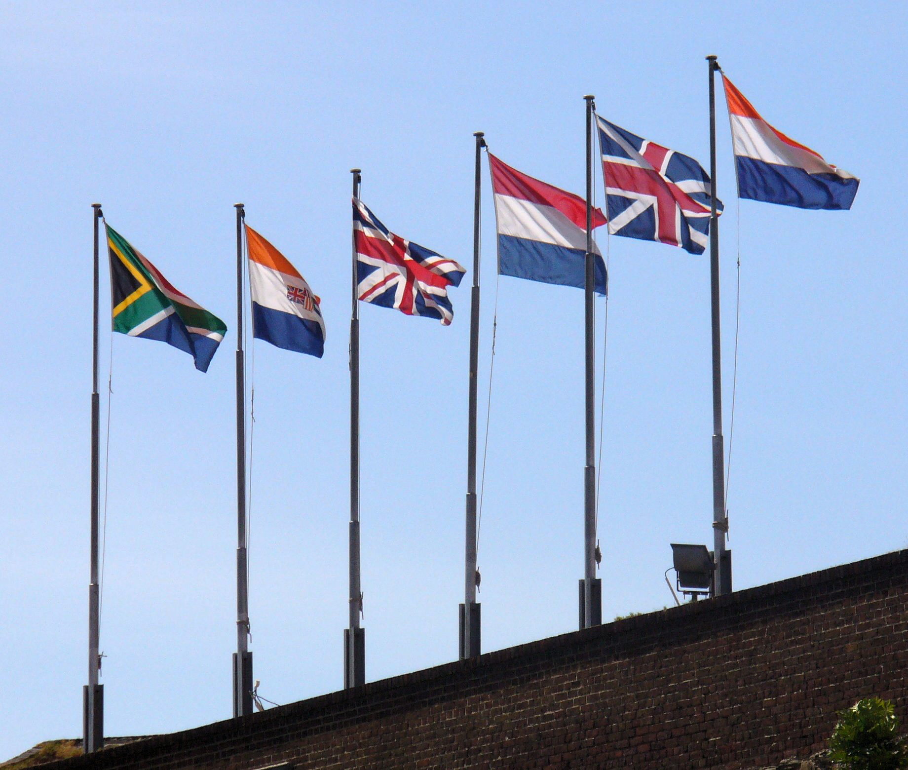 The 6 Flags that have flown on the Castle of Good Hope in Cape Town through the course of history, the oldest at the right, the current flag at the left.